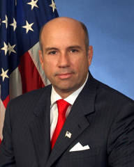 James S. Simpson (2006 photo), sworn in as the Federal Transit Administrator on August 10, 2006, and named in 2010 as commissioner of the New Jersey Department of Transportation. Official United States Department of Transportation photo.